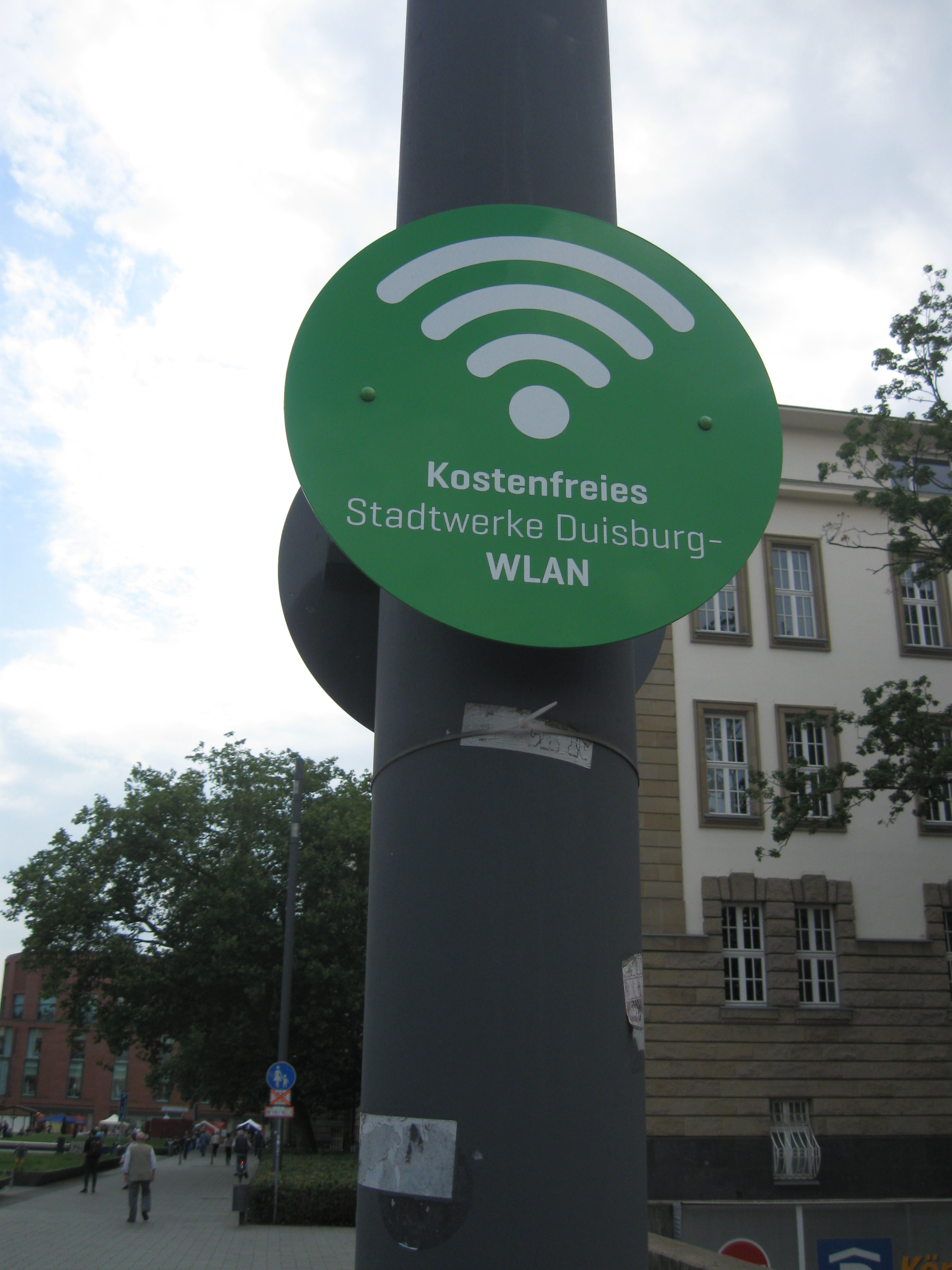 Duisburg offers free WLAN in the city centre.